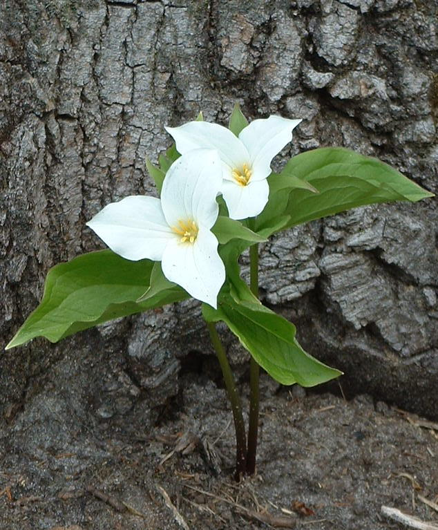 White Trillium, Ontario